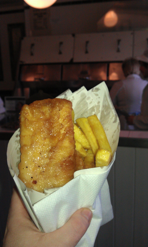 Fish & chips at the Black Country Living Museum